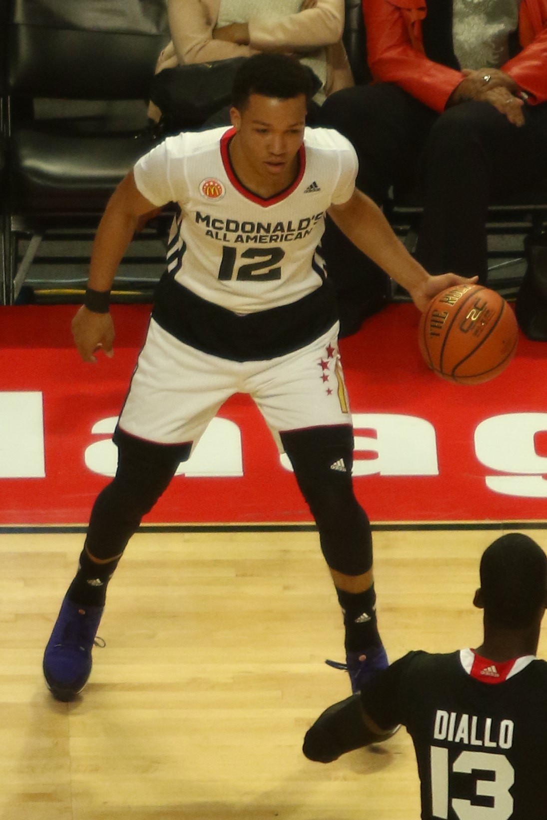 Jalen Brunson in the w:2015 McDonald's All-American Boys Game